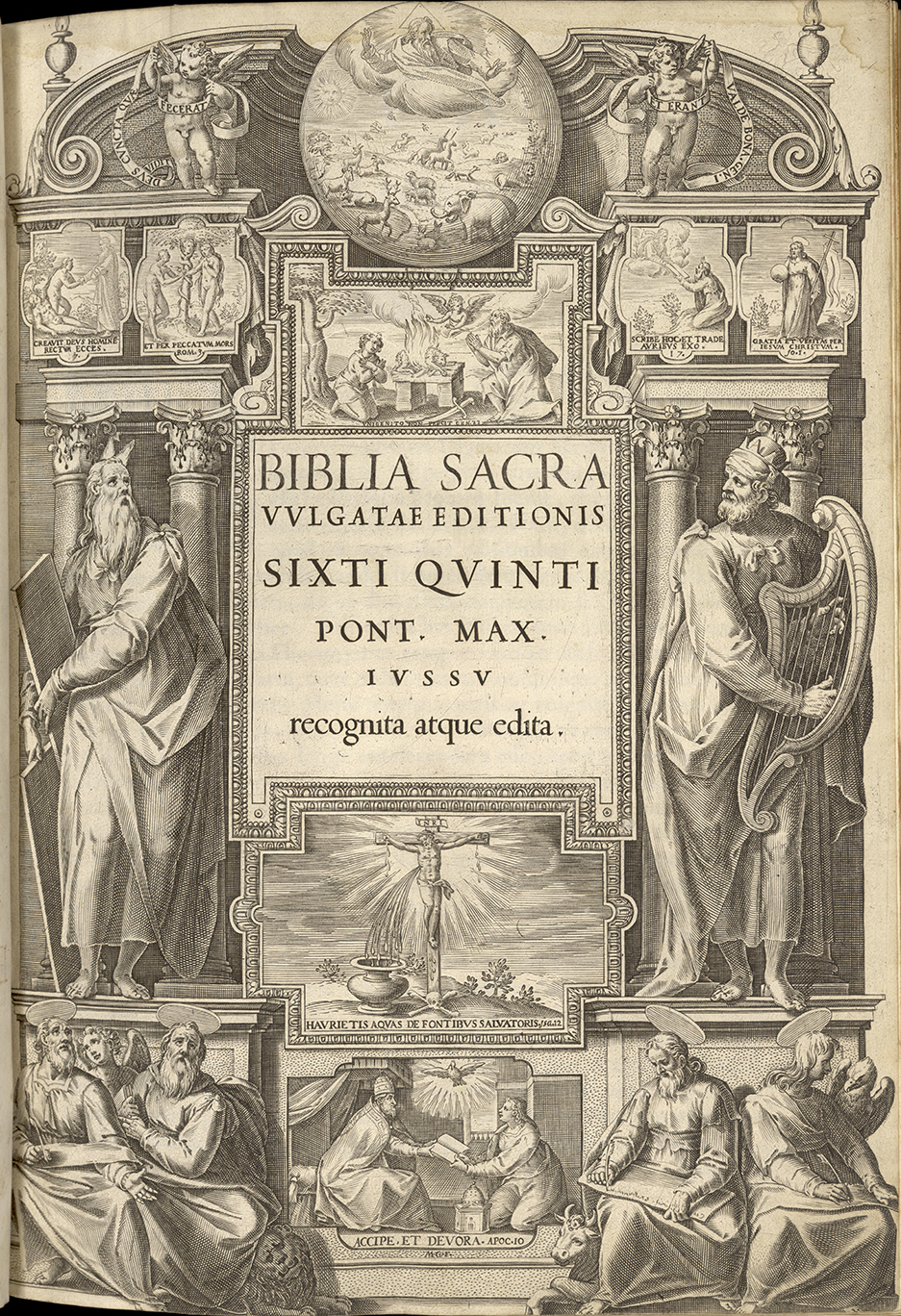 Frontispiece of the Sixto-Clementine Vulgate (1592). The title reads: Biblia Sacra Vulgatae editionis Sixti Quinti Pont. Max. iussu recognita atque edita.. This frontispiece is reproduced from the Sixtine Vulgate.